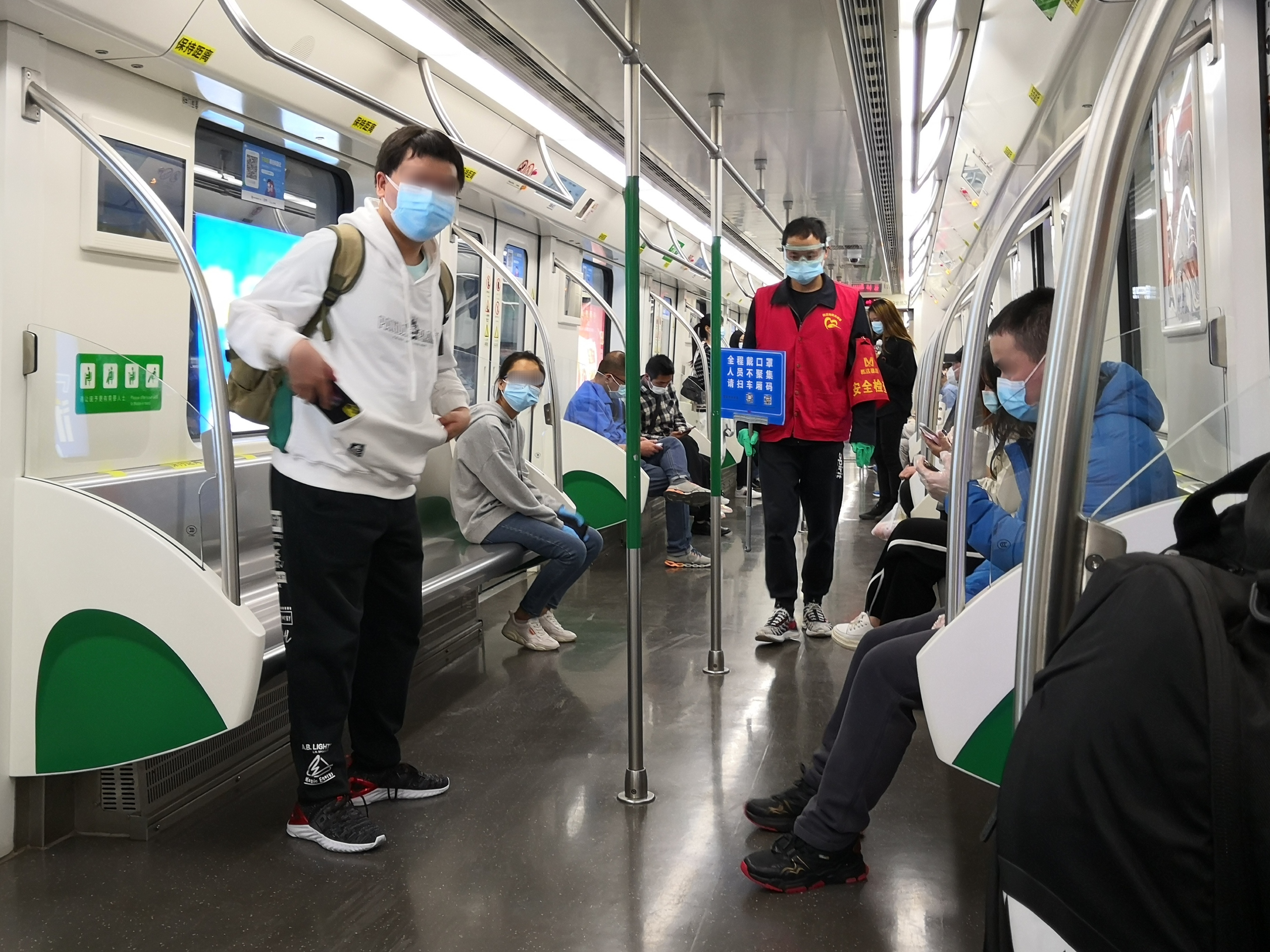 The staff in red reminds passengers to wear masks throughout their journeys and maintain social distancing in the carriage during COVID-19 pandemic.